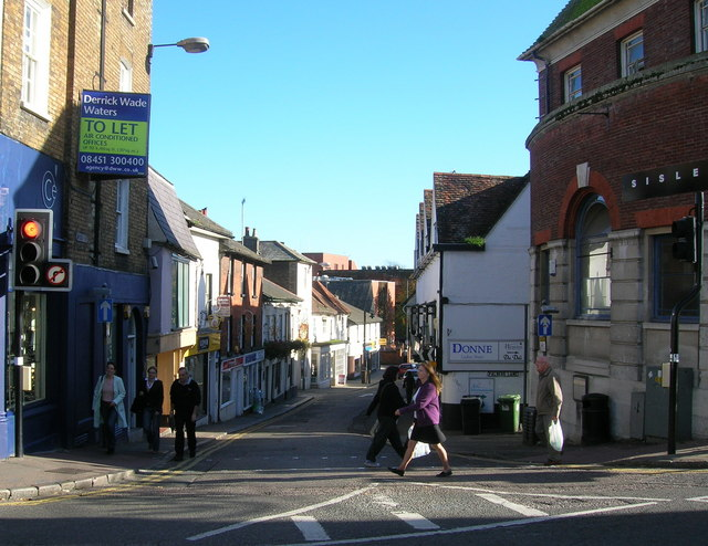 Bridge Street